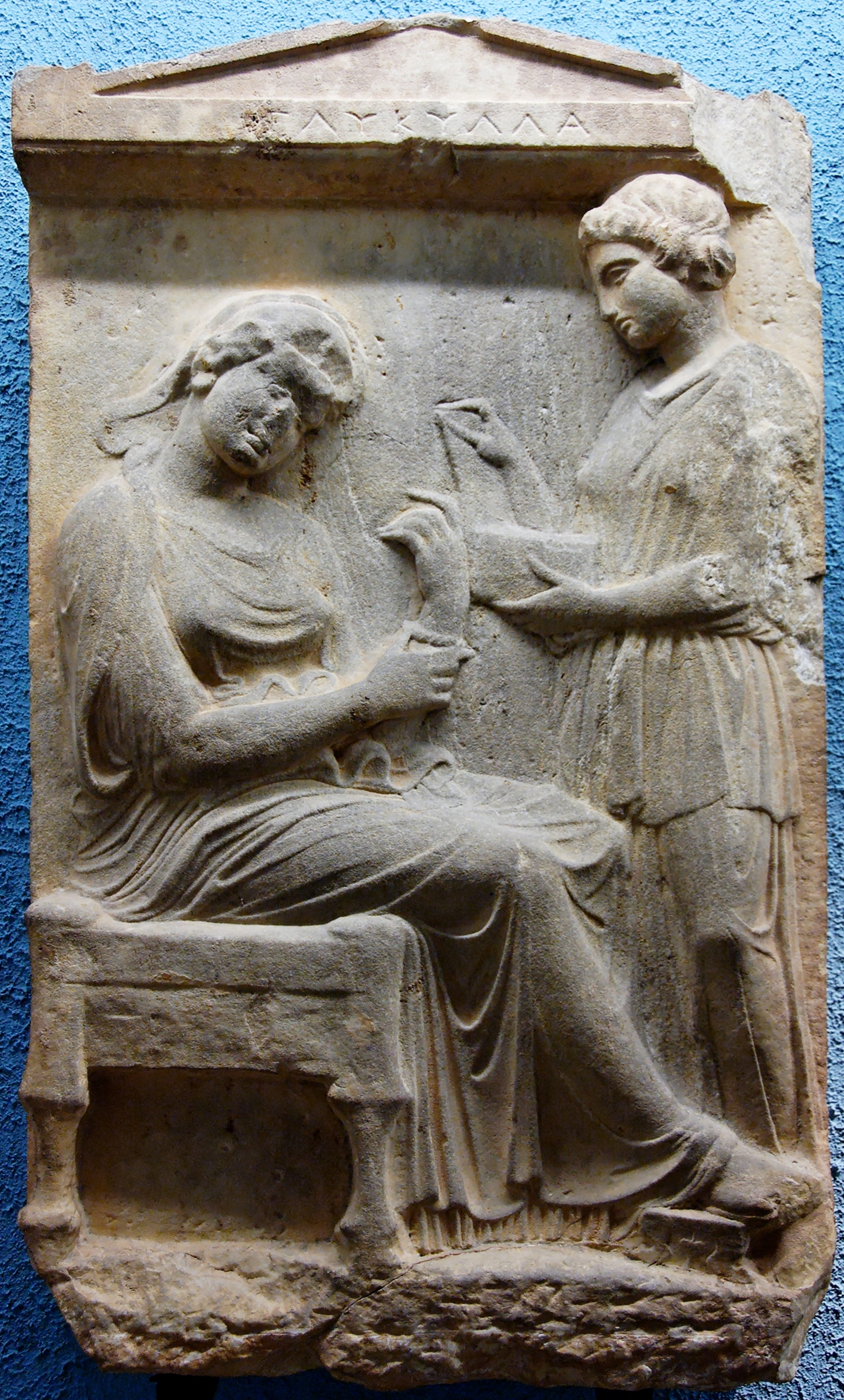 Seated woman adjusting her bracelet while her young slave opens a casket, funerary stele bearing the name of Glykylla.